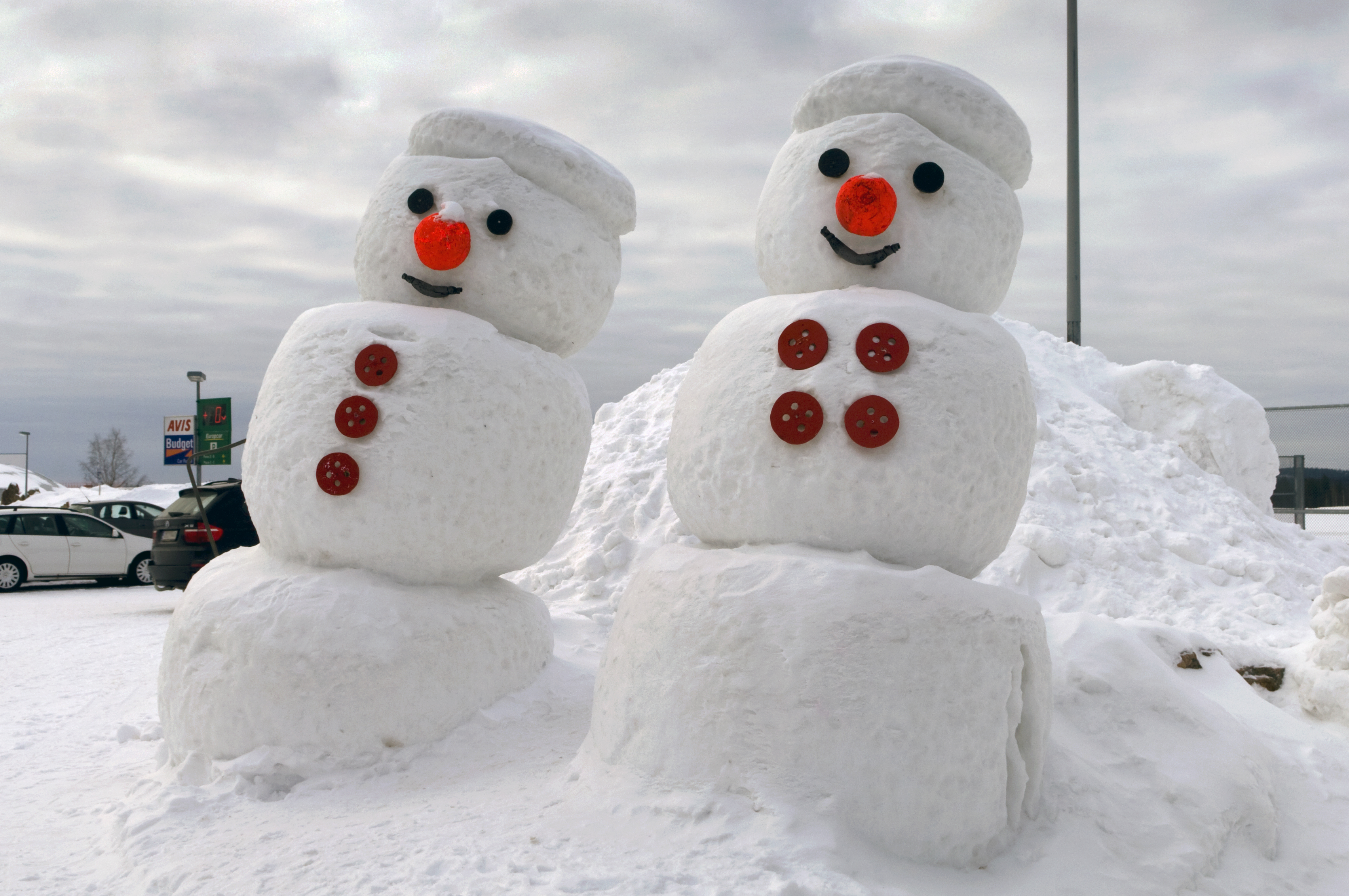 Snowmen at the forecourt of Rovaniemi Airport in Lapland, Finland.